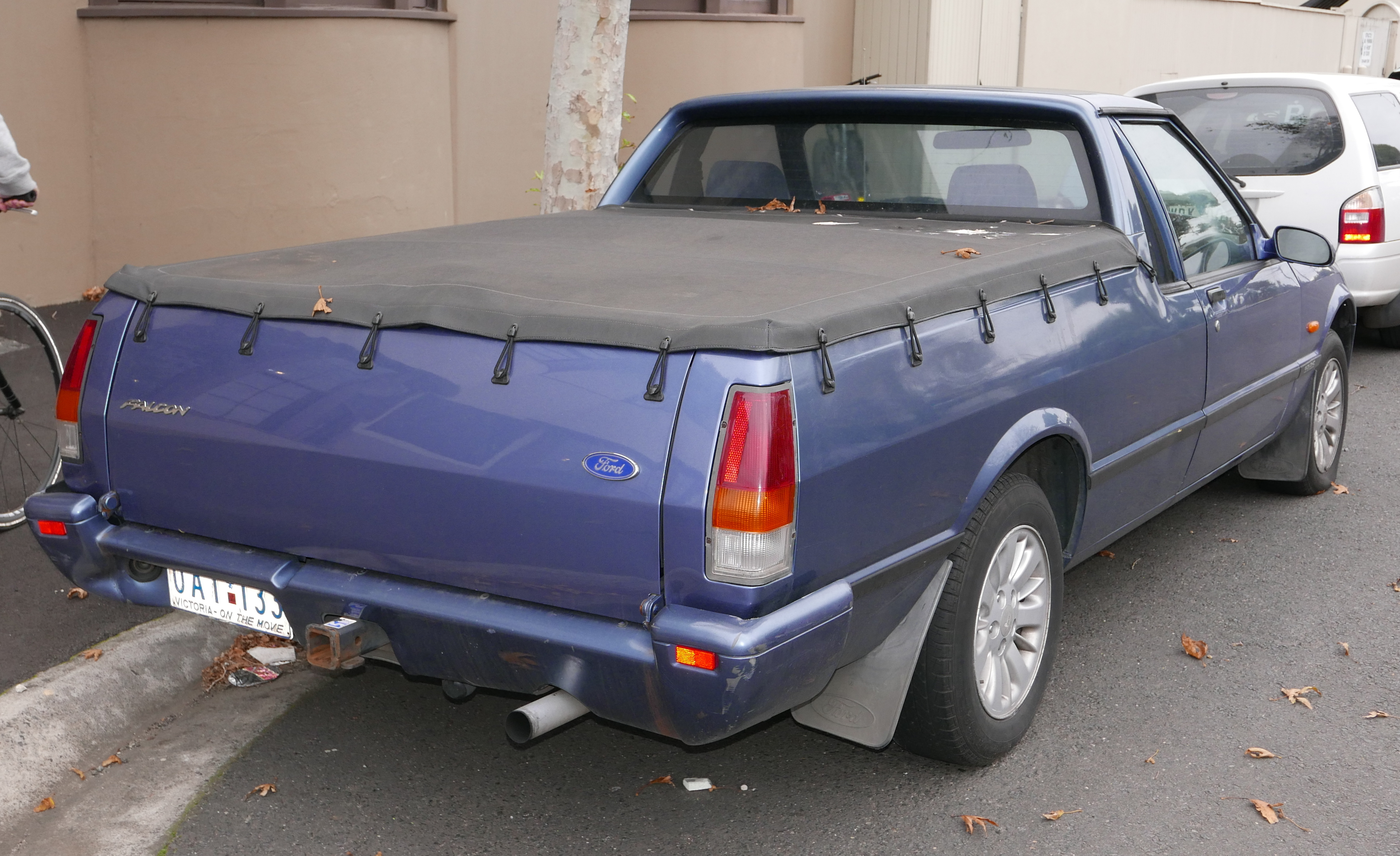 1996 Ford Falcon (XH) Longreach S utility. Photographed in Brighton, Victoria, Australia. Vehicle registration enquiry results Jurisdiction Victoria Registration OAI133 Chassis code 6FPAAAJLCMTY14407 Engine code JLCMTY14407 Compliance date 1996-10 Year of manufacture 1996